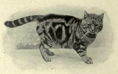 Lady Decies' "Champion Xenophon" (Photo: E. Landor, Ealing.)